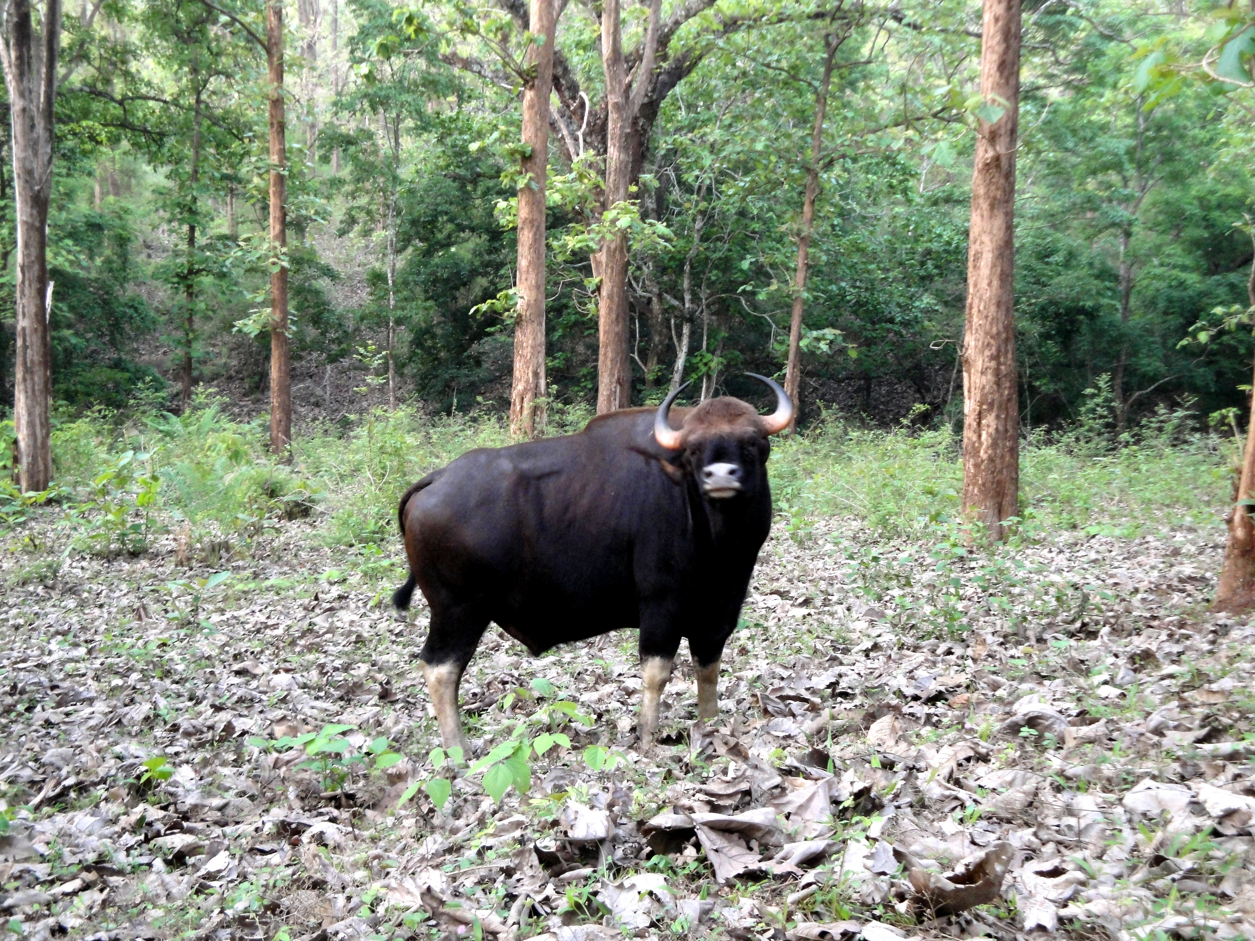 There is a place named as Bison Valley in Parambikkulam, Kerala, India, at there this rock figure was giving a chance to take a snap.